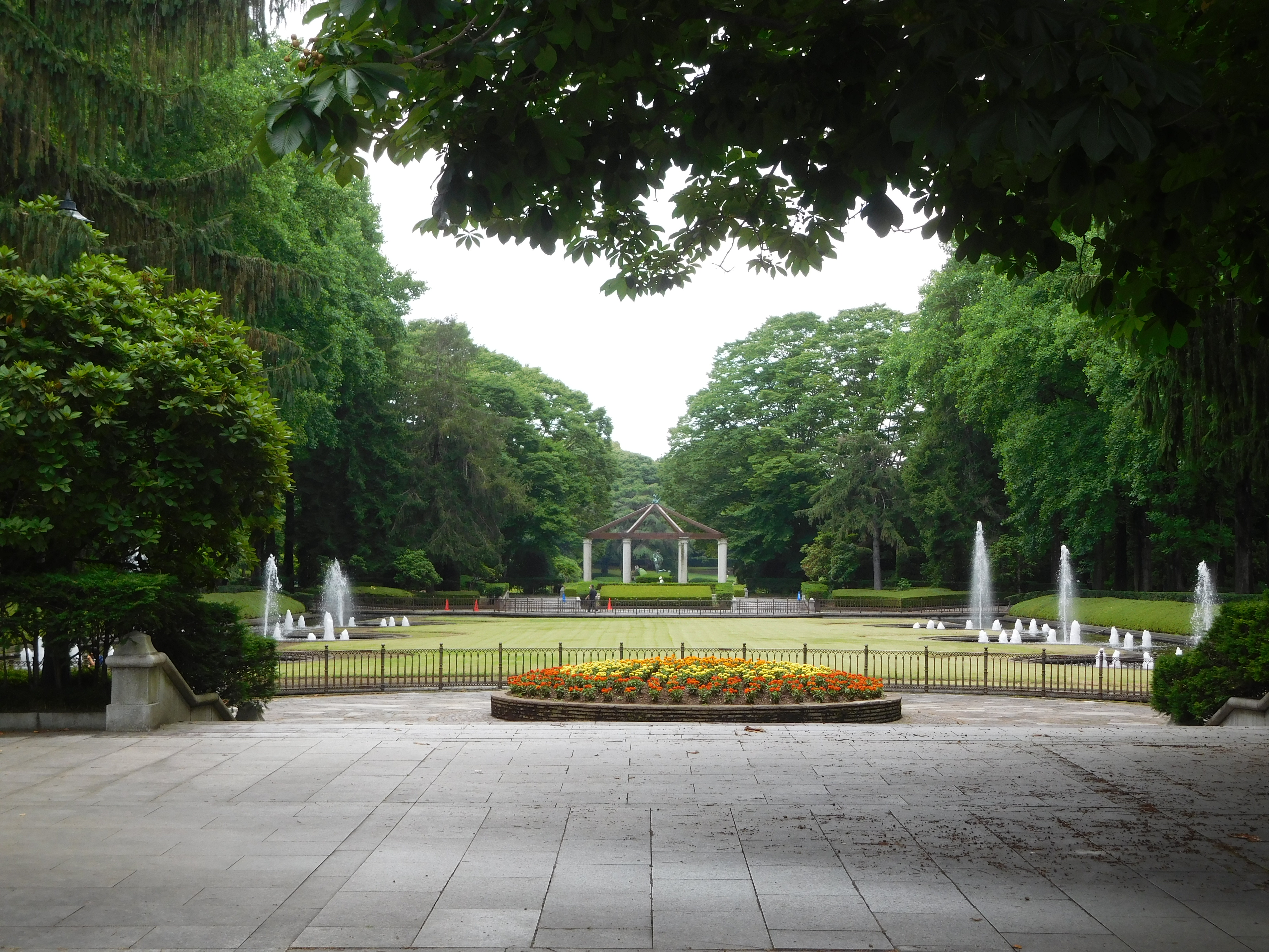 This is Tochigi Central Park in Utsunomiya, Tochigi, Japan.